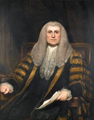 Portrait of Thomas Erskine, 1st Baron Erskine, Lord Chancellor